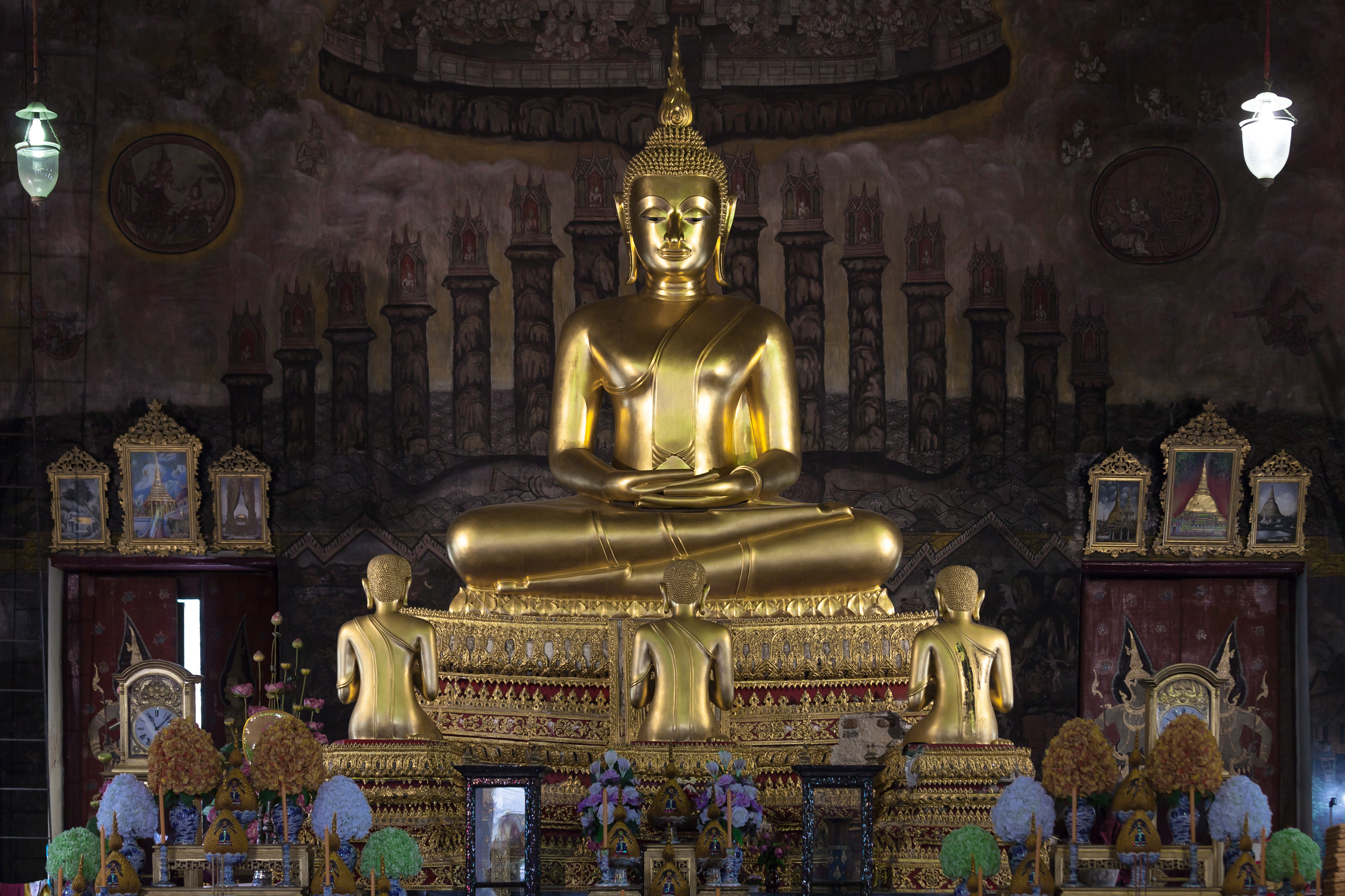 Phra Prathan Yim Rub Fa at Wat Rakhang.